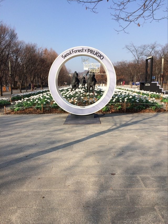 A picture of Seoul Forest Park near one of the entrances, showing a horse race.